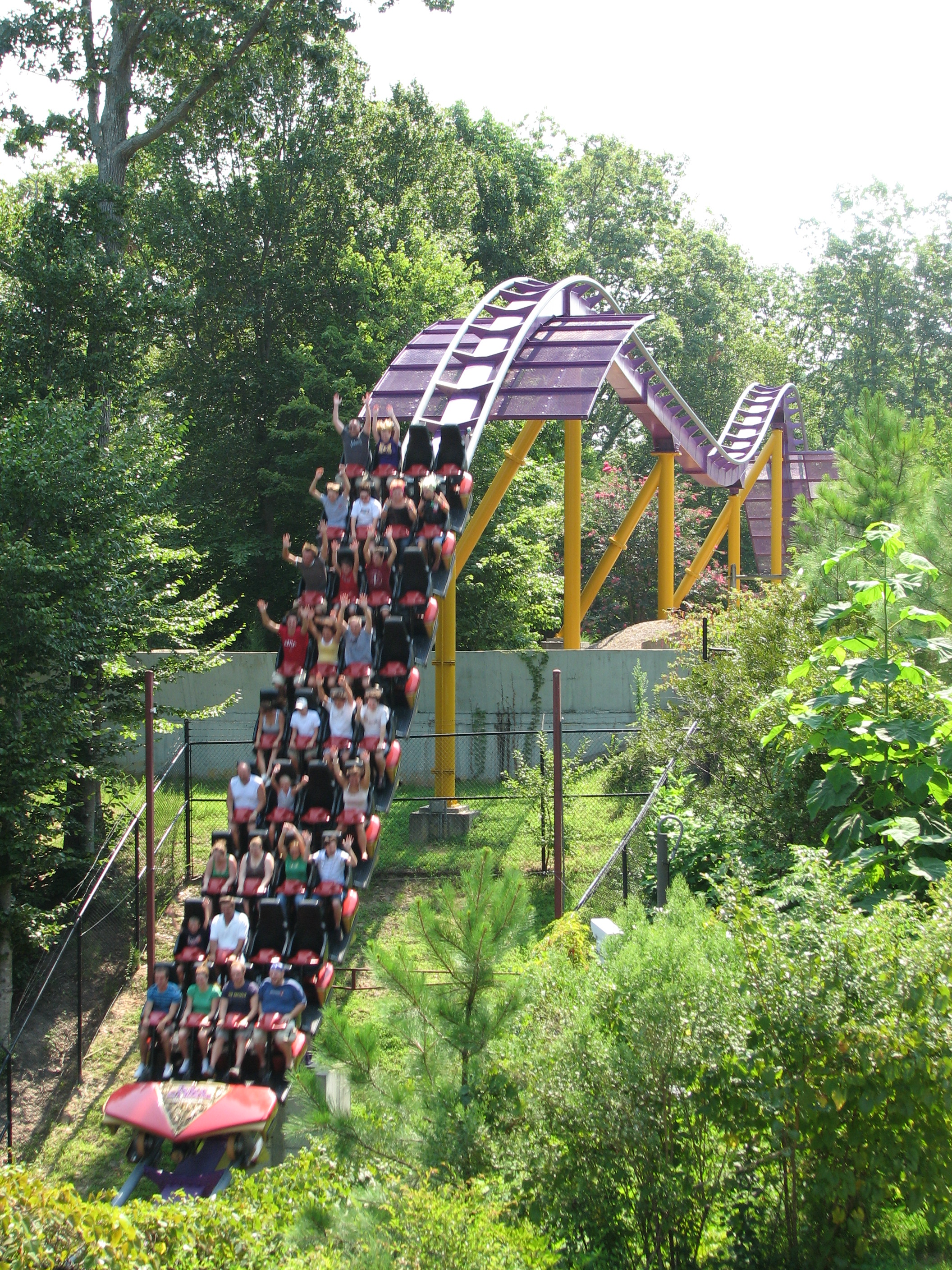 Apollo's Chariot